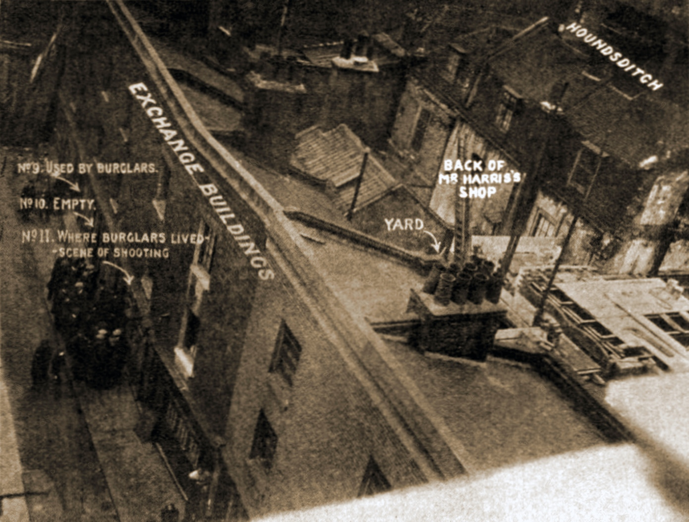 Scene of the 1910 Houndsditch robbery in which three policemen were murdered. The events led to the Siege of Sidney Street The caption in the ILN reads: "The scene of the affray with armed burglars which resulted in the death of three police officers: a photographic diagram of Exchange Buildings and neighbourhood."